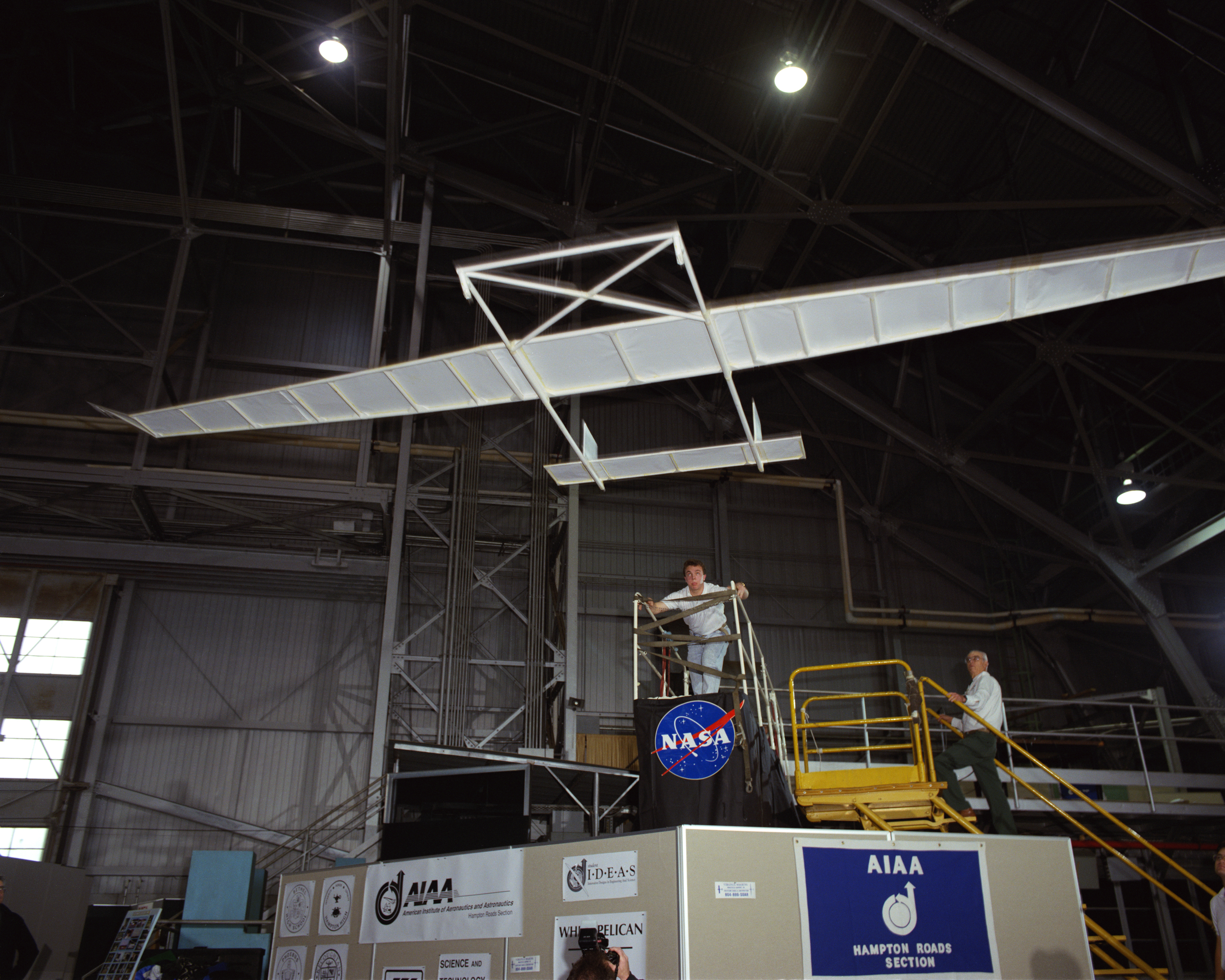 World record breaking paper airplane inside a Langley hangar.